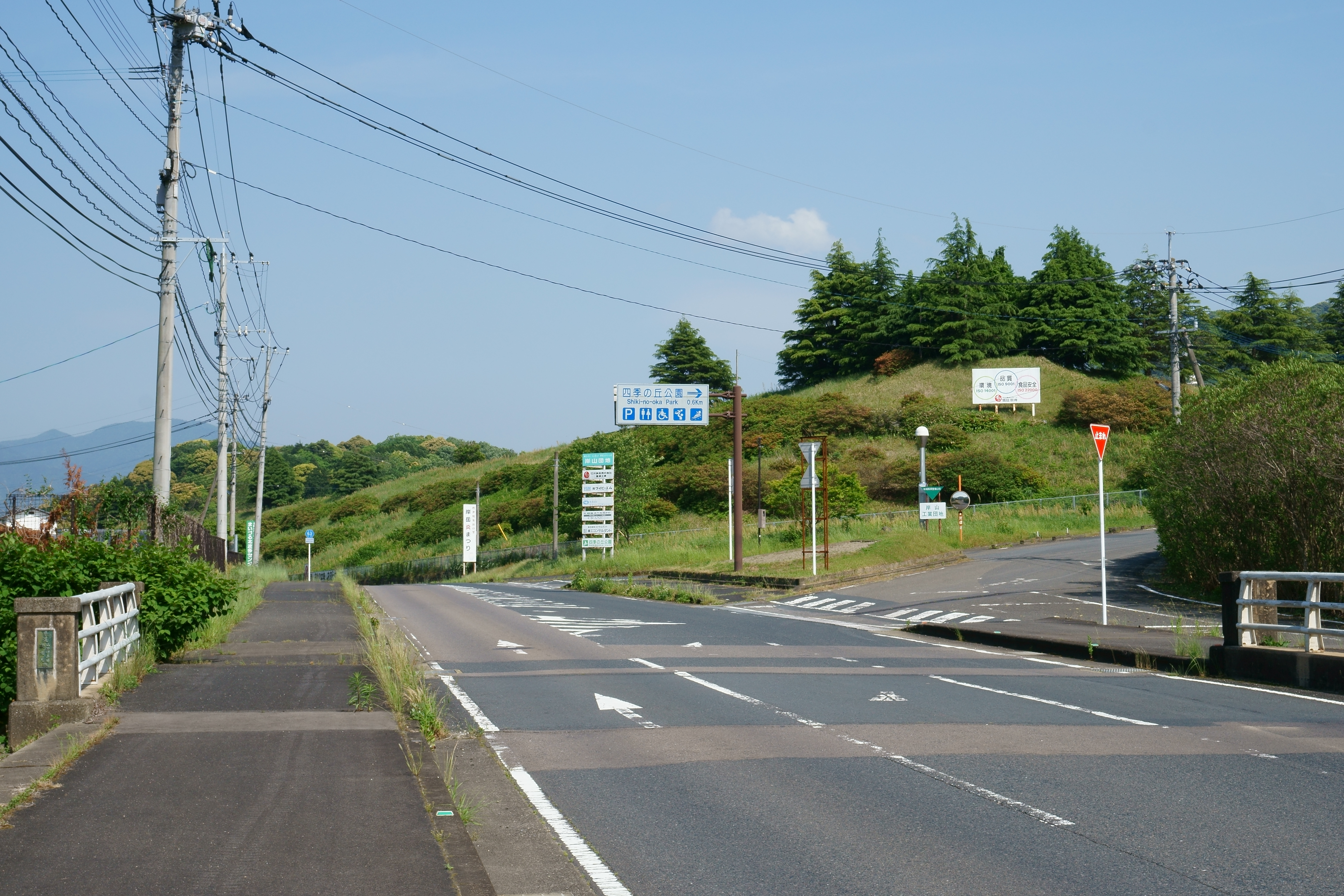 Saga Prefectural Road No.52 in Hieda, Kitahata, Karatsu city, Saga prefecture.